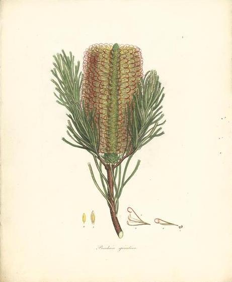 This is an image of a print of a hand coloured engraving by James Sowerby (1757-1822), based on drawing nominally by John White but probably by the convict artist Thomas Watling. It appeared as Tab. IV in James Edward Smith's 1793 A Specimen of the Botany of New Holland. The plant depicted is Banksia spinulosa (Hairpin Banksia). The accompanying text explains the figure thus: A scale of the receptacle. A flower unexpanded. The same expanded Stigma Tip of a petal magnified, shewing one of the stamina in its natural situation. Stamen separate.